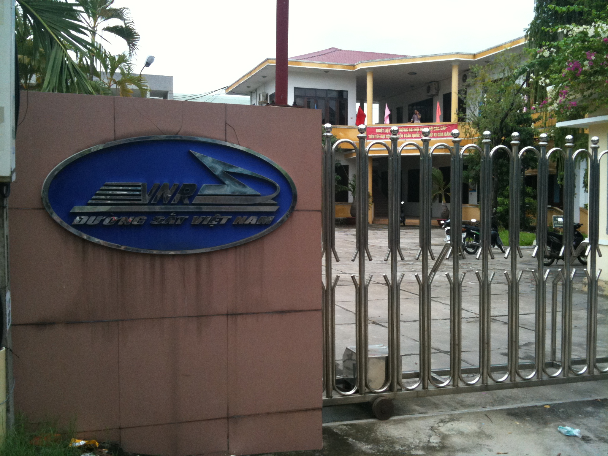 The Danang branch office of Vietnam Railways, adjacent to Danang Railway Station.